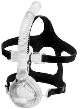 Example CPAP Mask